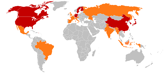 Map of the major paper producers